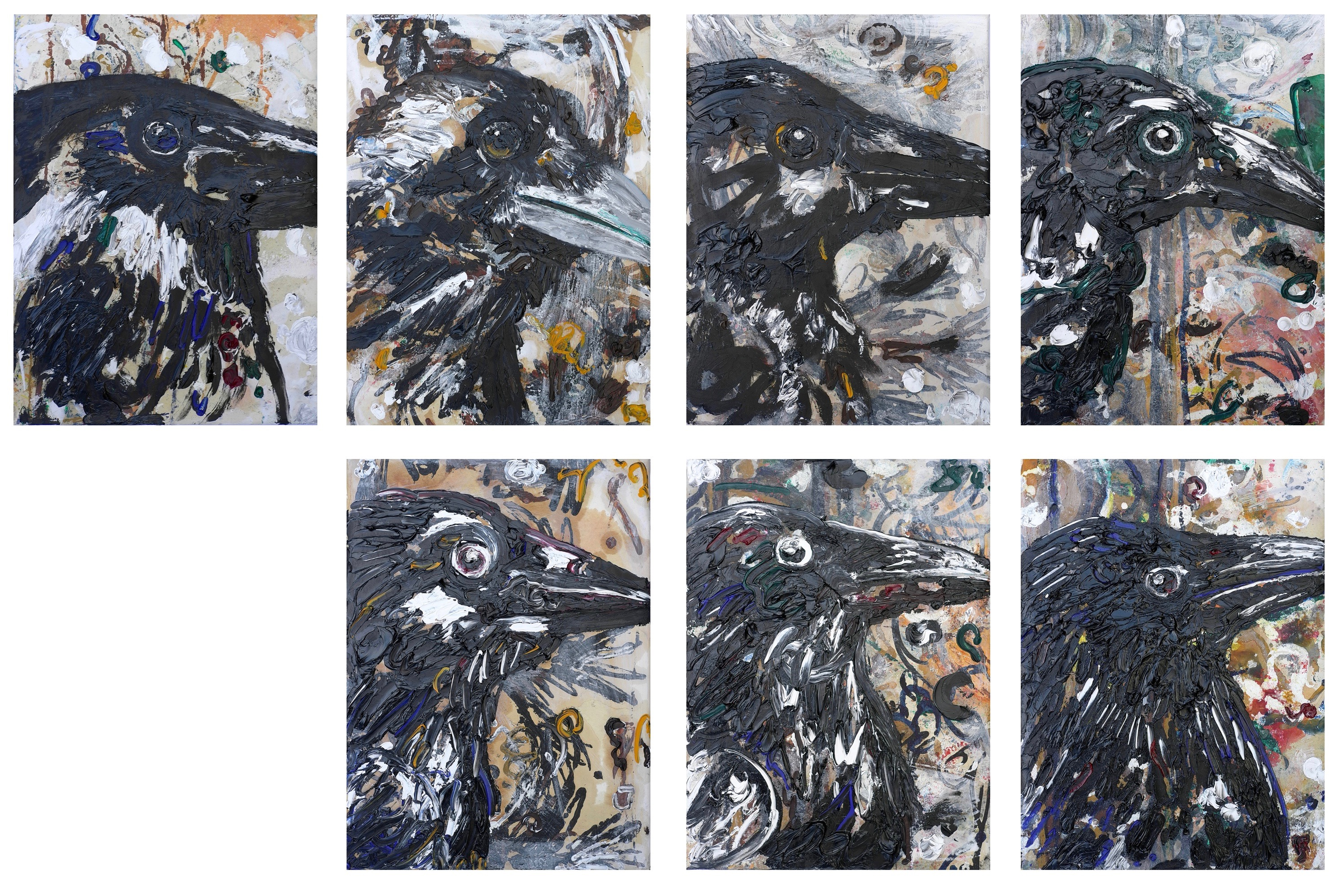 Paintings Die sieben Raben (nach einem Märchen der Gebrüder Grimm) (2016, each 40x30 cm) by the German painter and sculptor Bernhard Sprute. The work belongs to the city of Bad Oeynhausen, Kreis Minden-Lübbecke, Nordrhein-Westfalen, Deutschland.